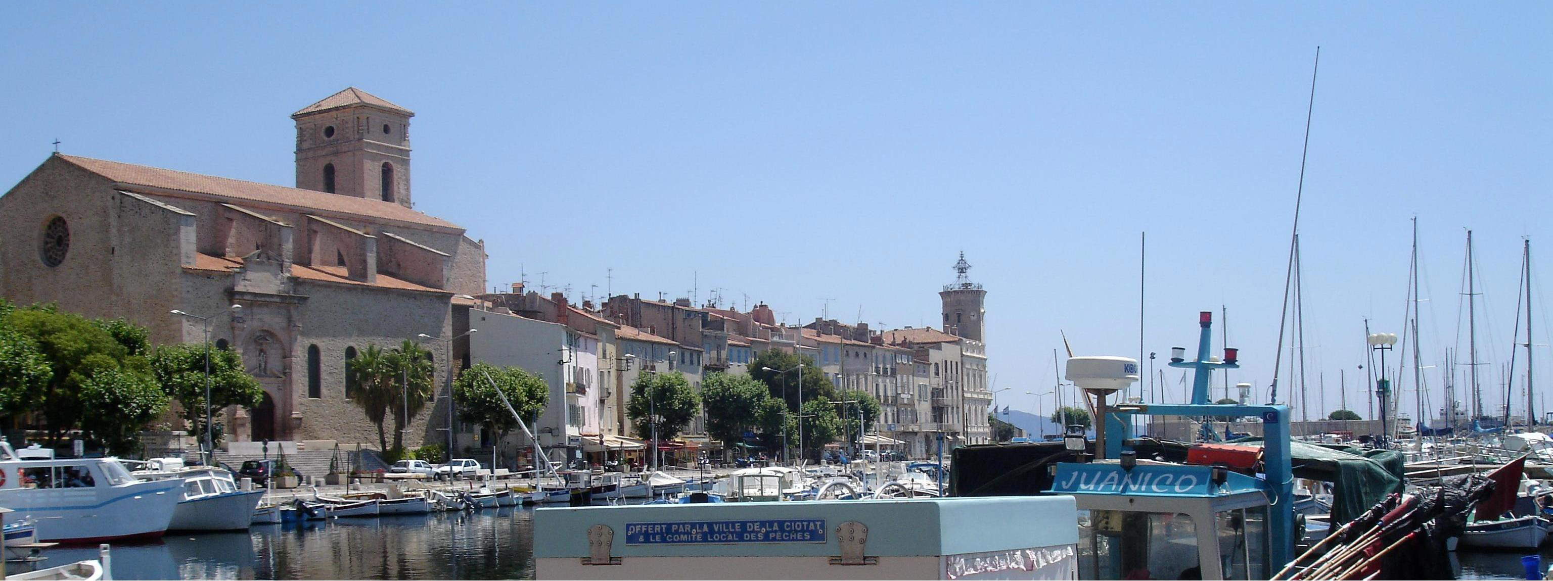 A picture of the La Ciotat marina